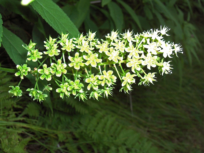 Fly-poison Amianthium muscitoxicum. Great Smoky Mountains National Park.